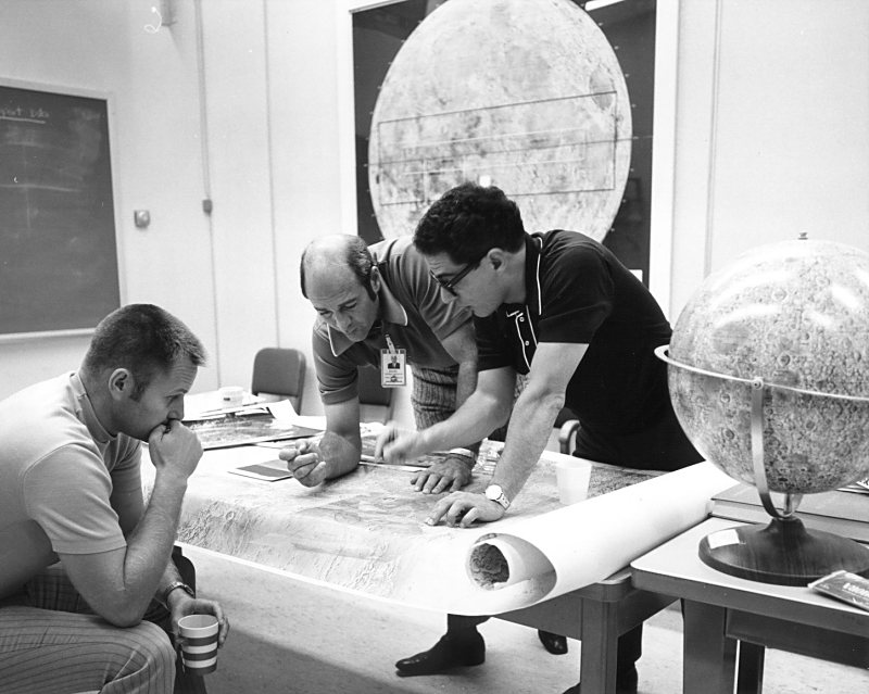 Farouk El-Baz reviewing lunar maps with Ronald Evans and Robert Overmyer.